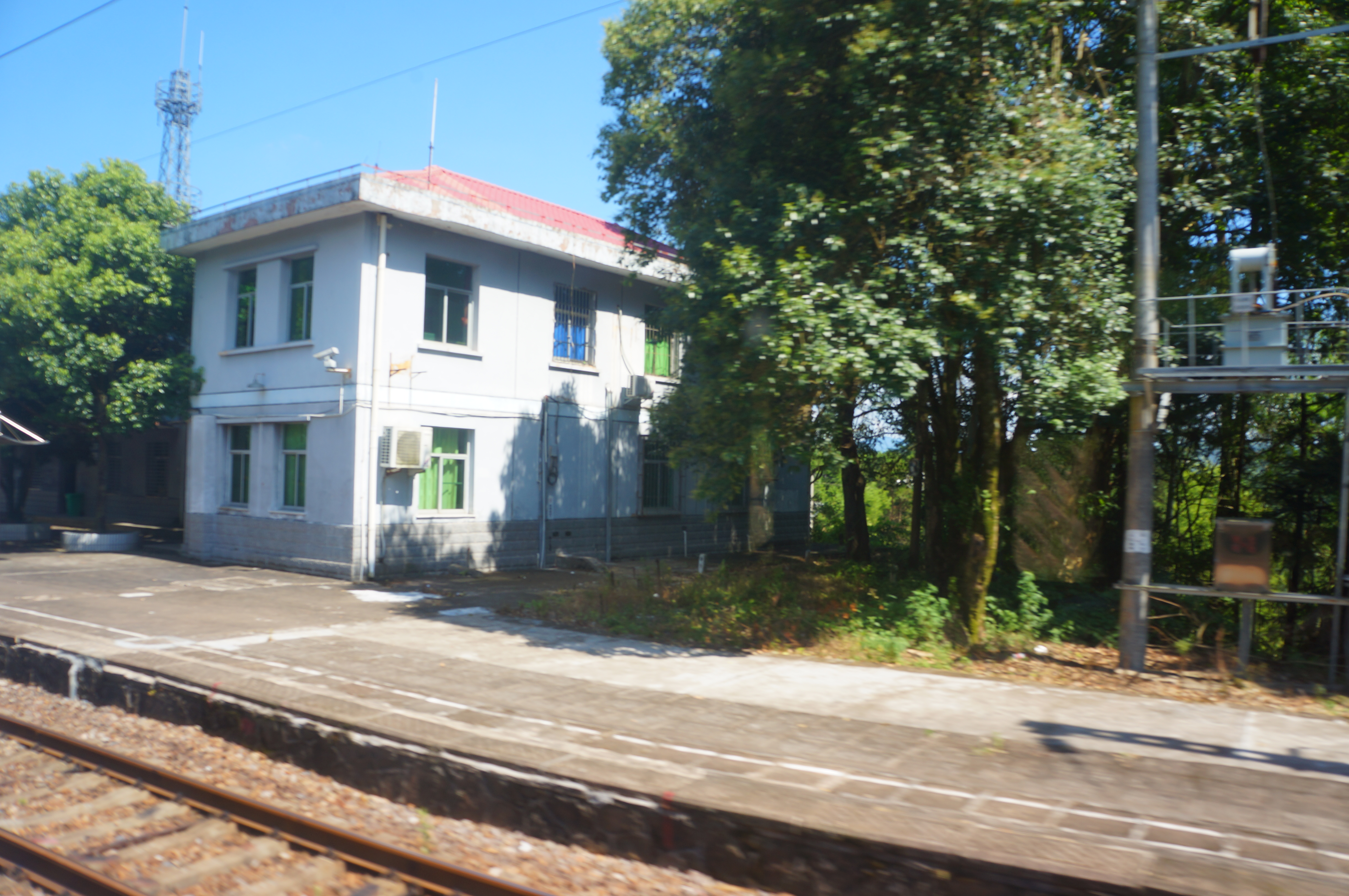 201806 Station Building of Fujian Huaqiao Station